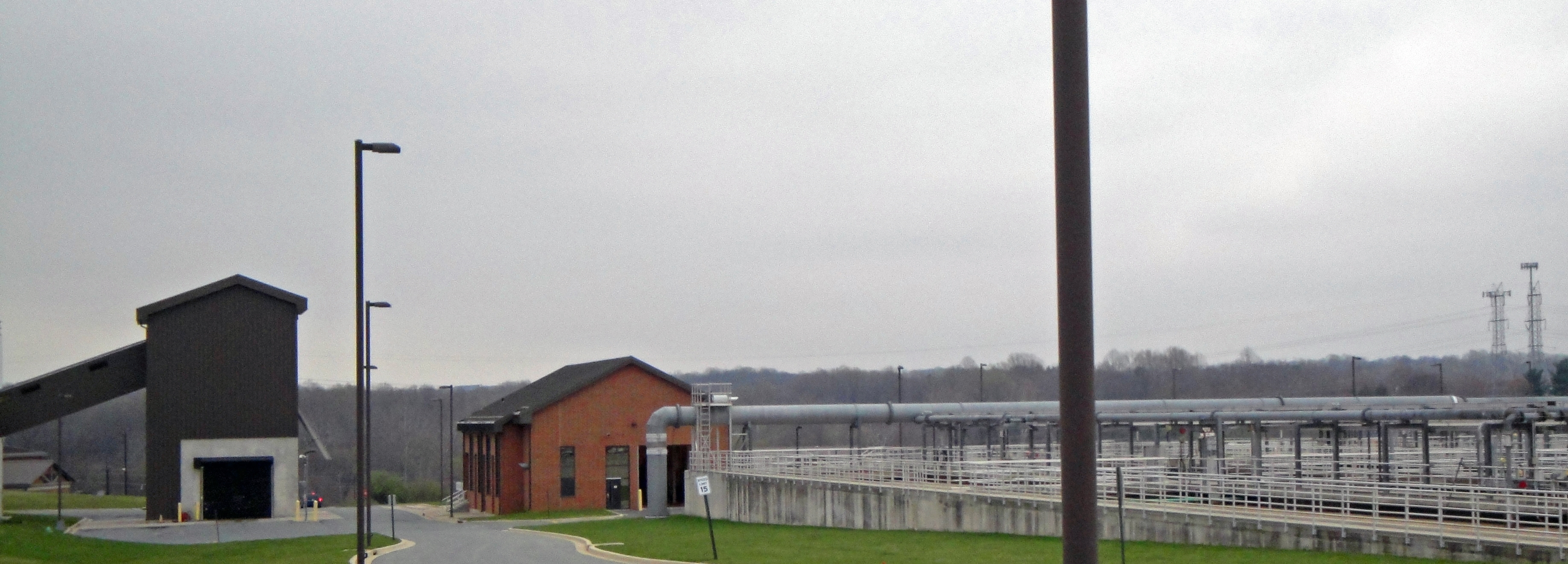 View of Seneca Wastewater Treatment Plant, Germantown, Maryland.